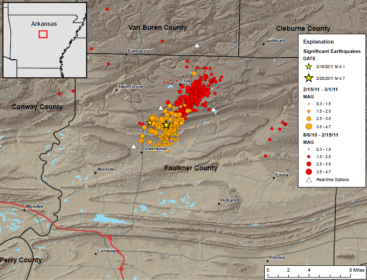 Locations of earthquakes in the Arkansas earthquake swarm - from 6 August 2010 to 1 March 2011. Centered in Faulkner County, Arkansas. From - this USGS poster